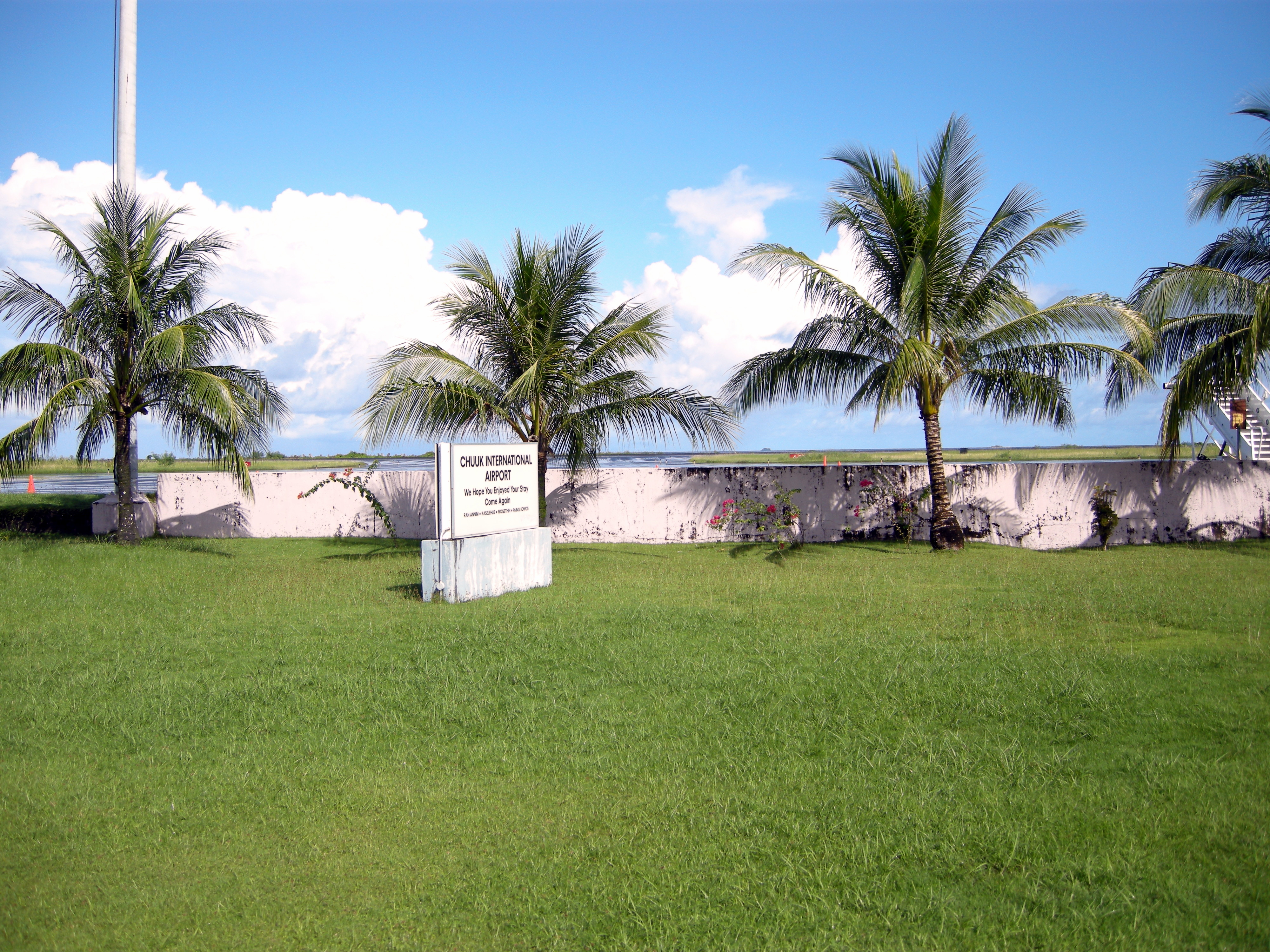 Chuuk International Airport, Weno